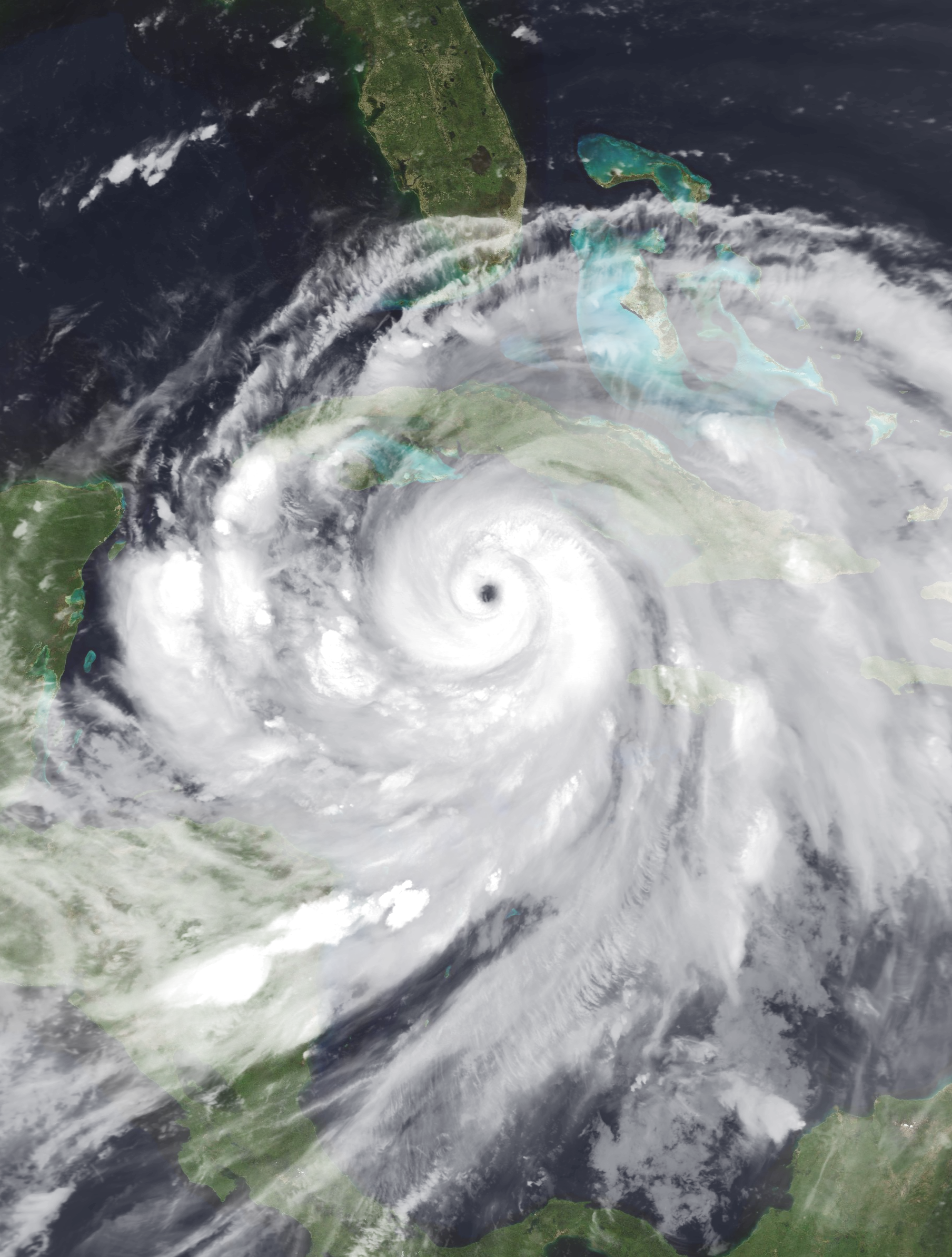 Hurricane Ivan as a Category 5 Hurricane Near Jamaica